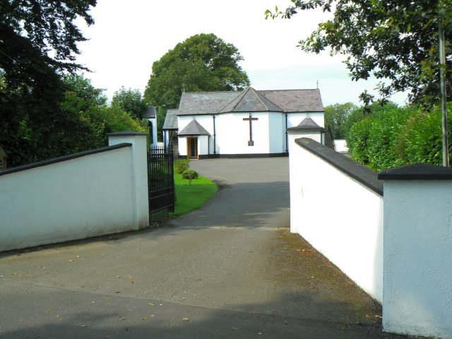 Pristine church Church of the Sacred Heart, Rathcoffey. It was built in 1710 but still looks extremely fresh and new.